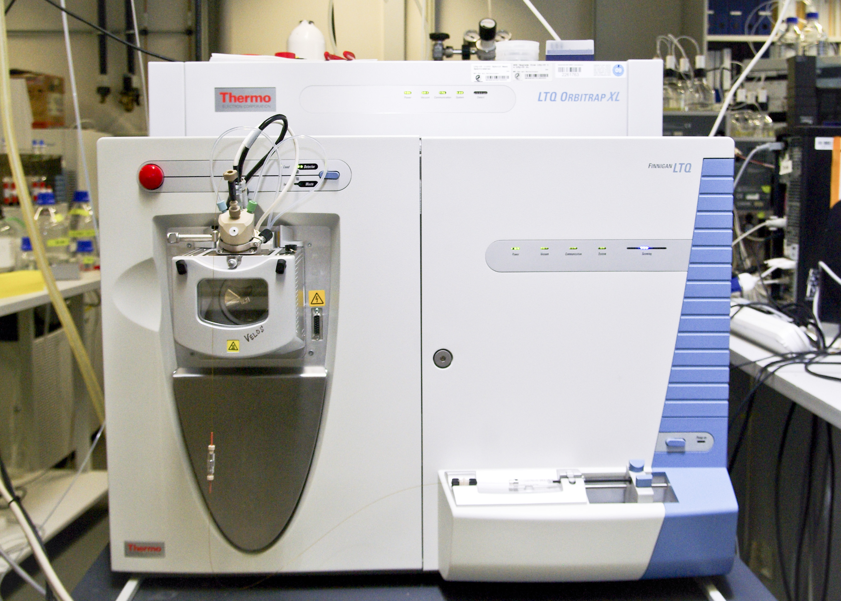 Thermo Scientific LTQ Orbitrap XL hybrid Fourier Transform Mass Spectrometer